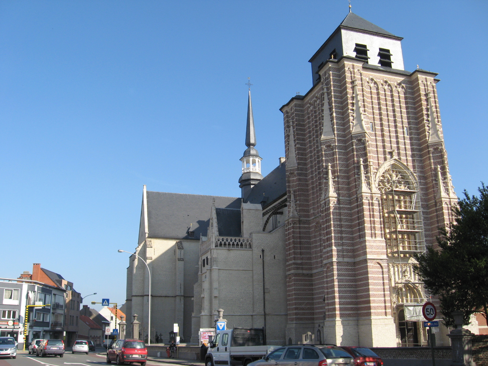 Church of Saint Dymphna in Geel, Antwerp, Belgium